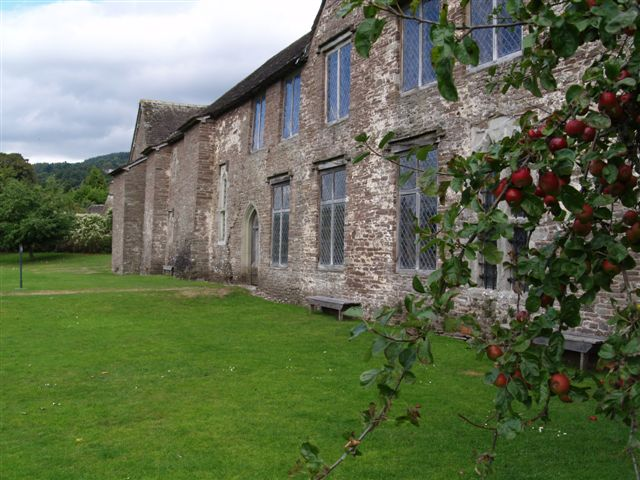 Tretower Court